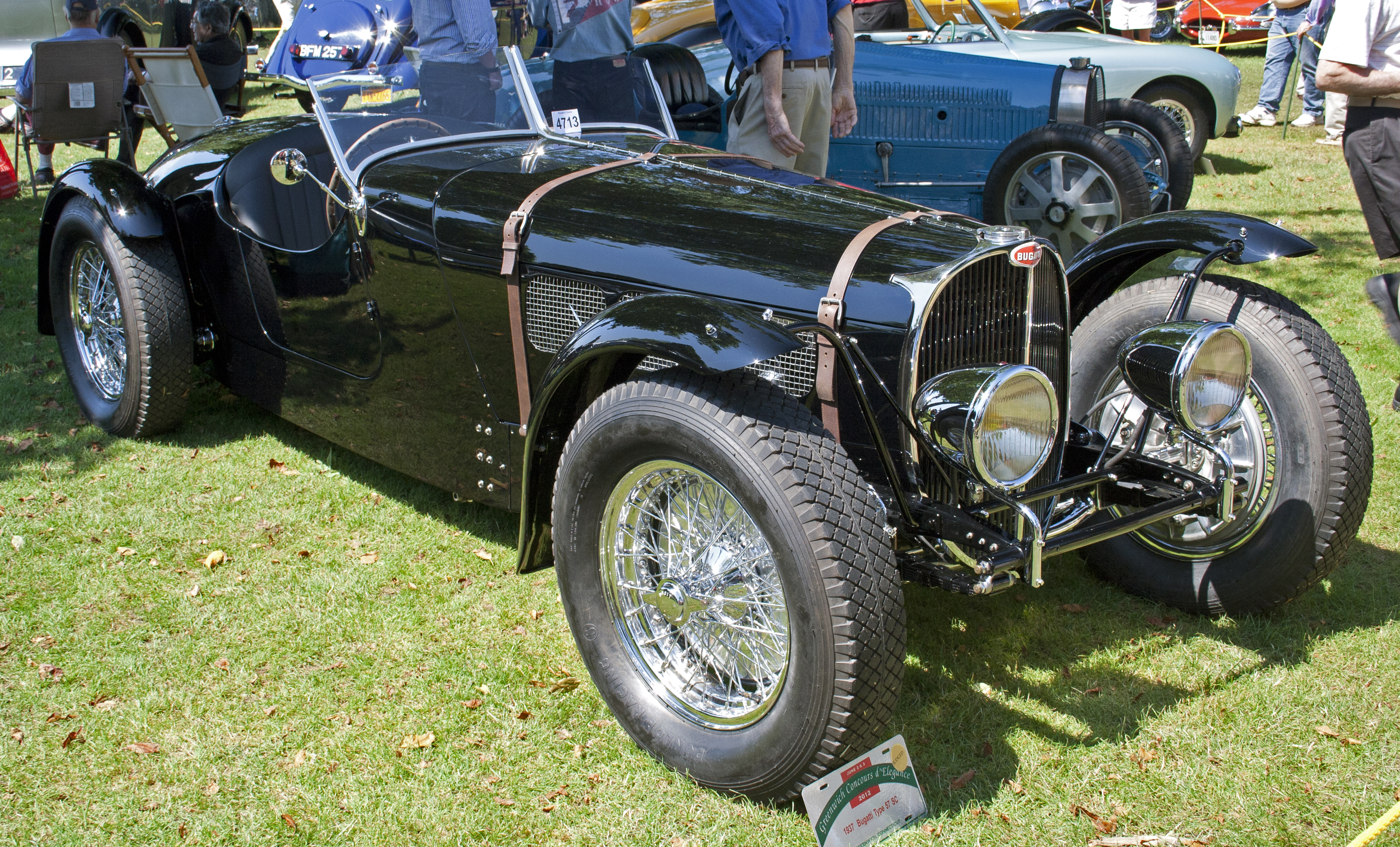 1937 Bugatti type 57SC Roadster at the 2012 Greenwich Concours d'Elegance.